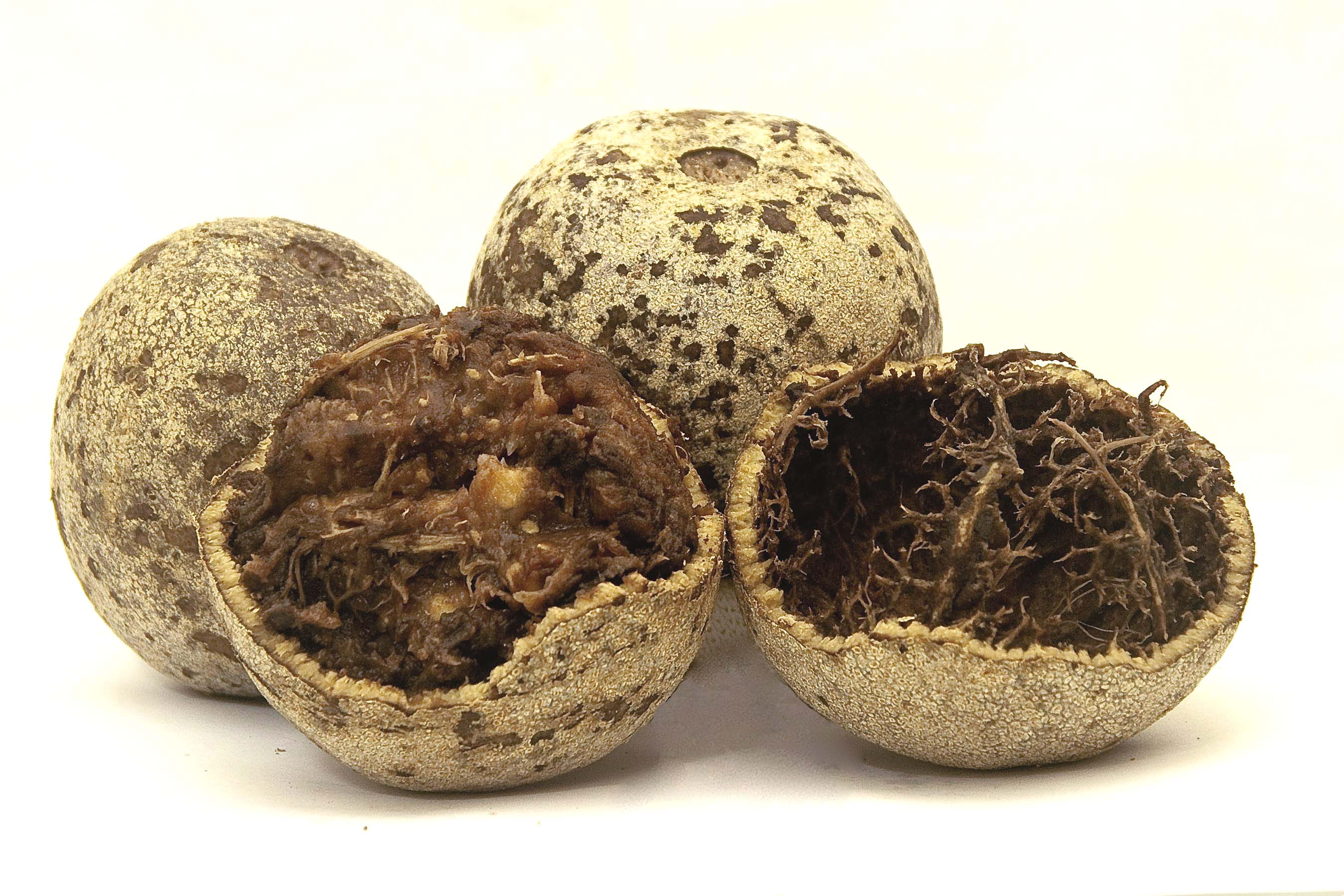 Wood Apple - Limonia acidissima